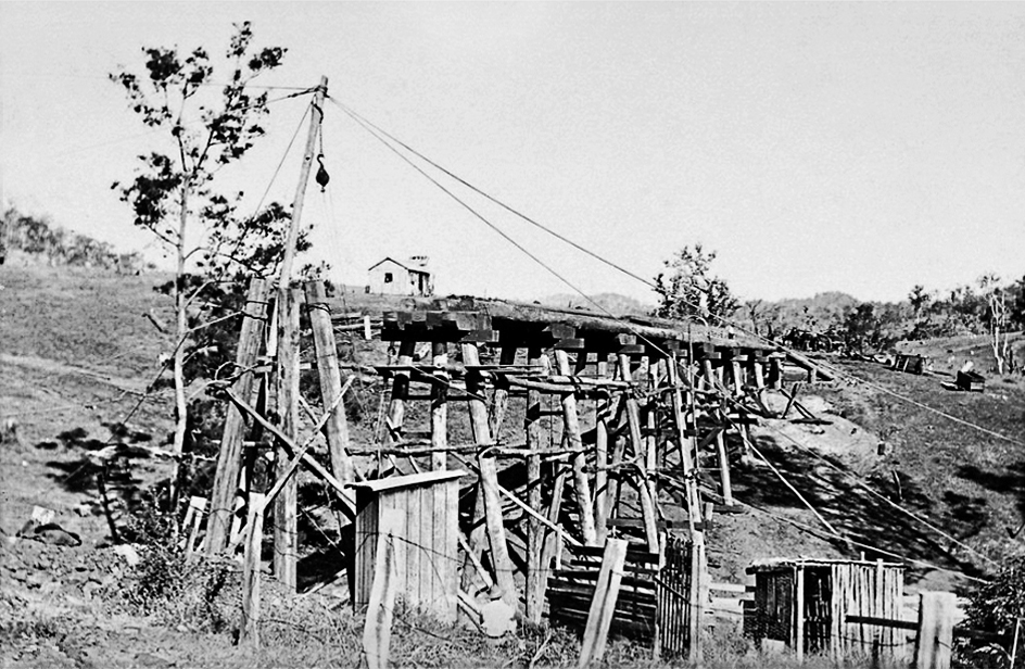 Construction of the tramway at Cangai Copper Mine. It was opened in 1911, extended in 1912 and closed in 1917. It was over four miles long and transported firewood into the smelters to heat the furnaces.